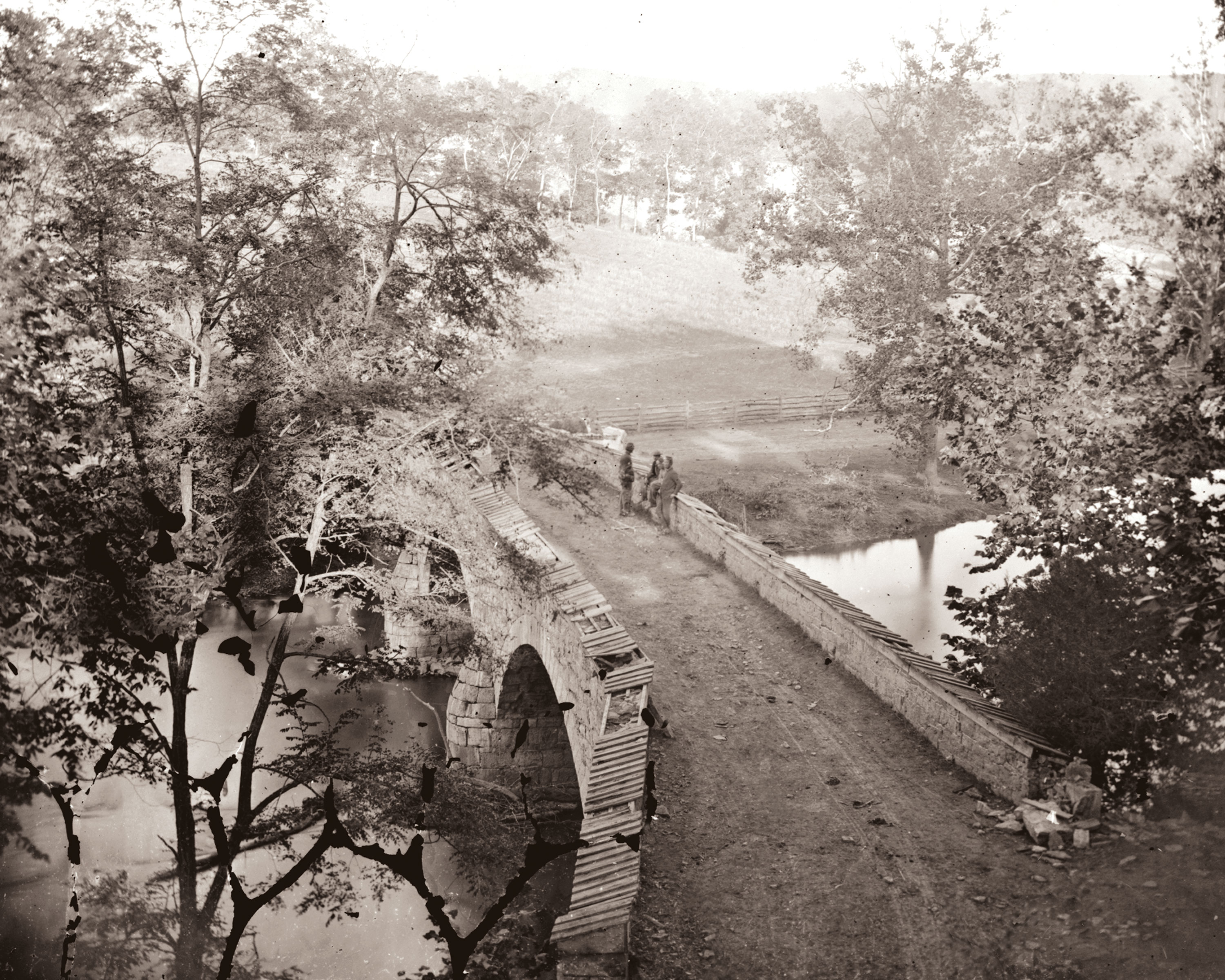 Burnside's Bridge near Sharpsburg in 1862, seen from the Confederate viewpoint on the west side of Antietam Creek, looking east